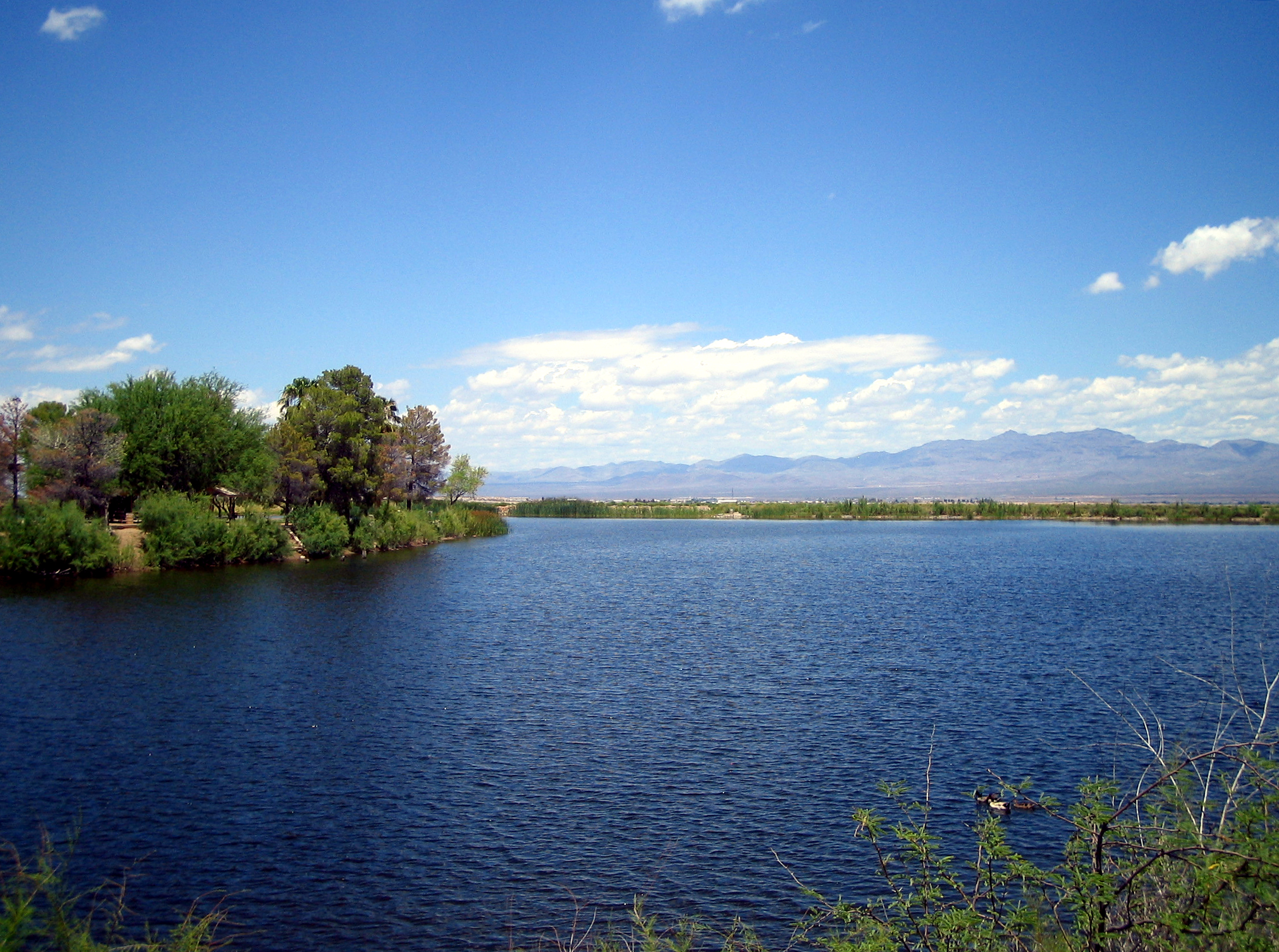 Roper Lake, near Safford, Arizona, USA